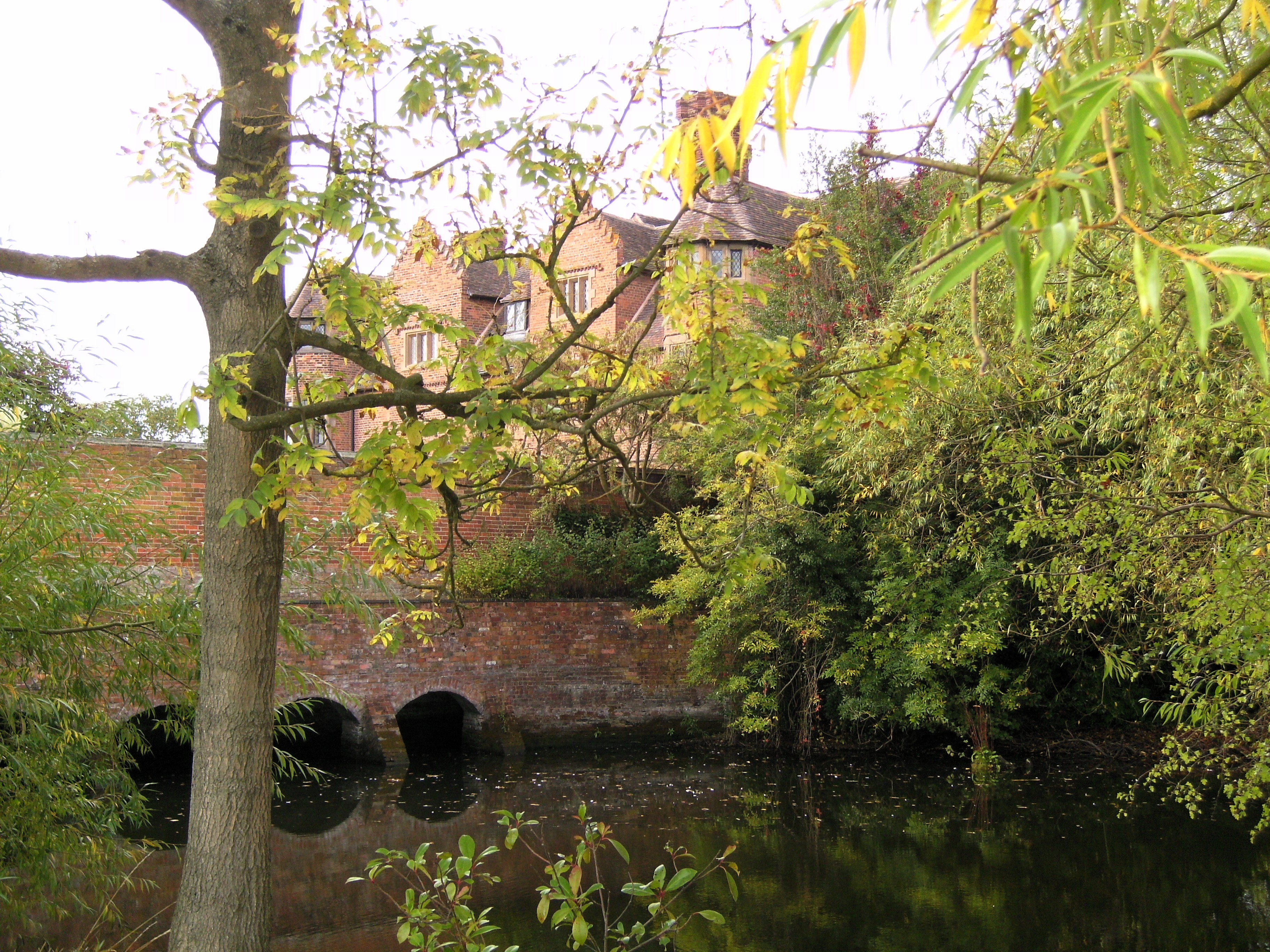 Black Ladies, a large private residence, partly of 16th and 17th century construction, on the site of of a former Benedictine priory. 4km west of Brewood, Staffordshire. Viewed from north-east, across the pond/moat.